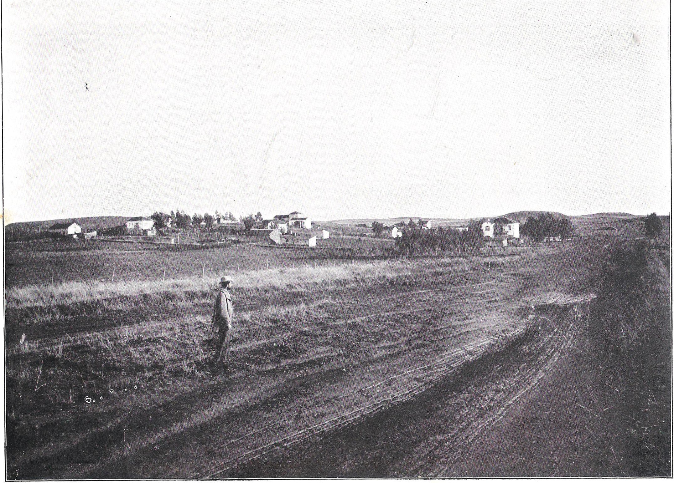 The picture are from old book (that was published in 1899), some of the picture are fro 1899, some are even older: This work or image is now in the public domain because its term of copyright has expired in Israel. According to Israel's copyright statute from 2007 (translation), a work is released to the public domain on 1 January of the 71st year after the author's death (paragraph 38 of the 2007 statute) with the following exceptions: A photograph taken on 24 May 2008 or earlier — the old British Mandate act applies, i.e. on 1 January of the 51st year after the creation of the photograph (paragraph 78(i) of the 2007 statute, and paragraph 21 of the old British Mandate act). If the copyrights are owned by the State, not acquired from a private person, and there is no special agreement between the State and the author — on 1 January of the 51st year after the creation of the work (paragraphs 36 and 42 in the 2007 statute). See also category: PD Israel & British Mandate. For the scan and the the crop: The name of the book (in hebrew) is: "מראה ארץ ישראל והמושבות" by (in hebrew): "ישעיהו ראפאלוביטש ושותפו משה אליהו זאכס" Rehovot